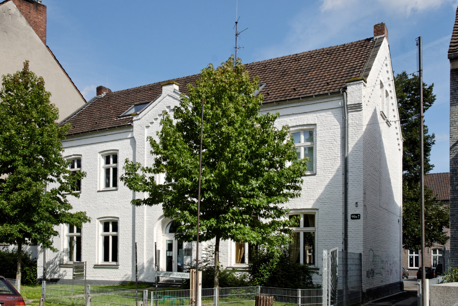 Building Werstener Dorfstraße 90 in Düsseldorf-Wersten, Germany This is a photograph of an architectural monument.